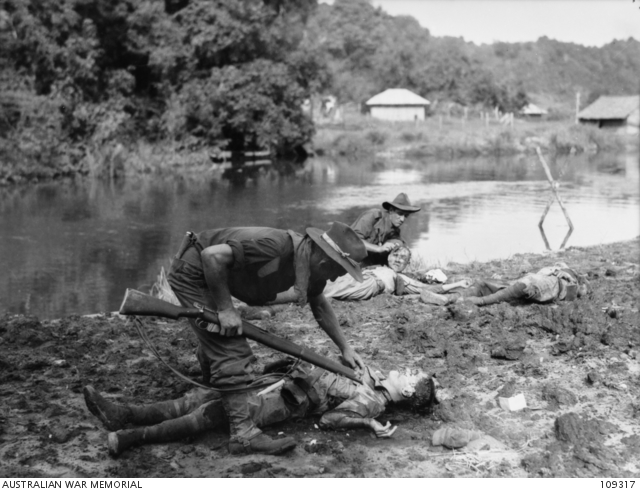 MEMBERS OF 2/17 INFANTRY BATTALION SEARCHING THE BODIES OF JAPANESE SOLDIERS FOR DOCUMENTS SOON AFTER CAPTURING THE TOWNSHIP. IDENTIFIED PERSONNEL ARE:- PRIVATE G B CREBER (1); LANCE CORPORAL J H CREBER (2). (IMAGE LOCATION: BRUNEI, BRITISH BORNEO)